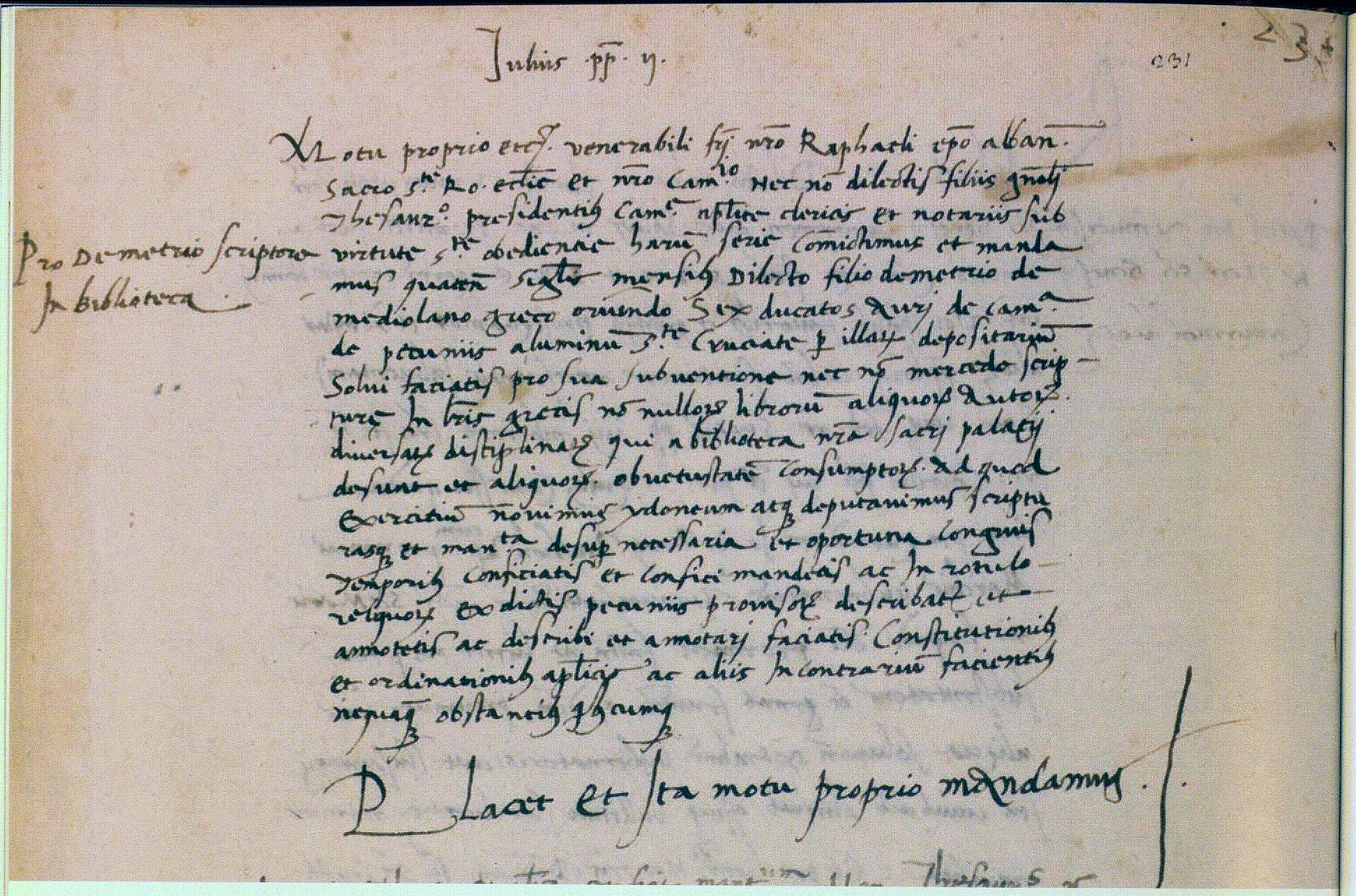 The Motu proprio issued by the Pope by which Demetrio Damilas was installed as scribe of Greek books in the papal library. Vatican City, Archivio Segreto Vaticano, Cam. Ap., Div. Cam. 57, fol. 225r.